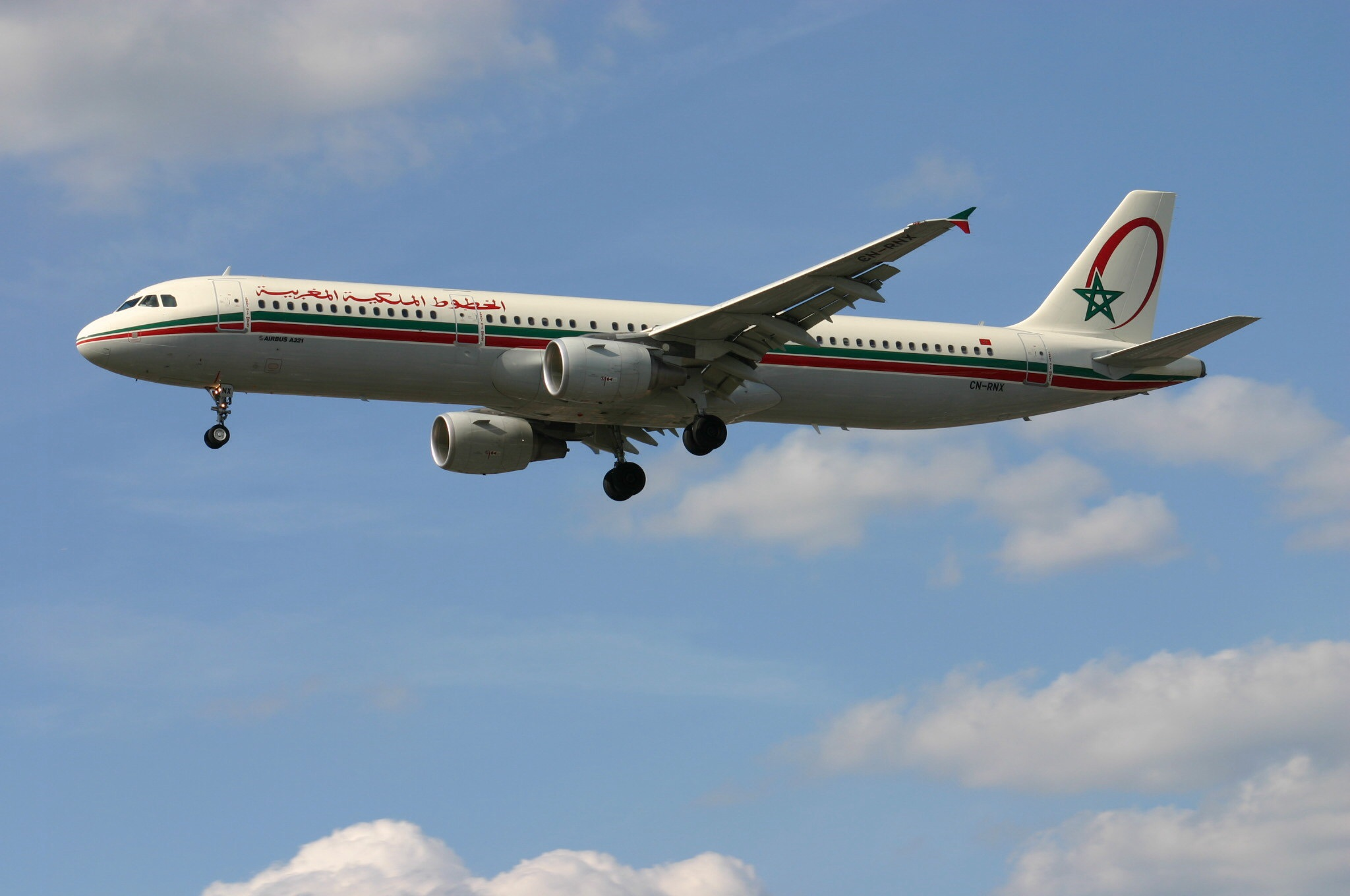 At London Heathrow